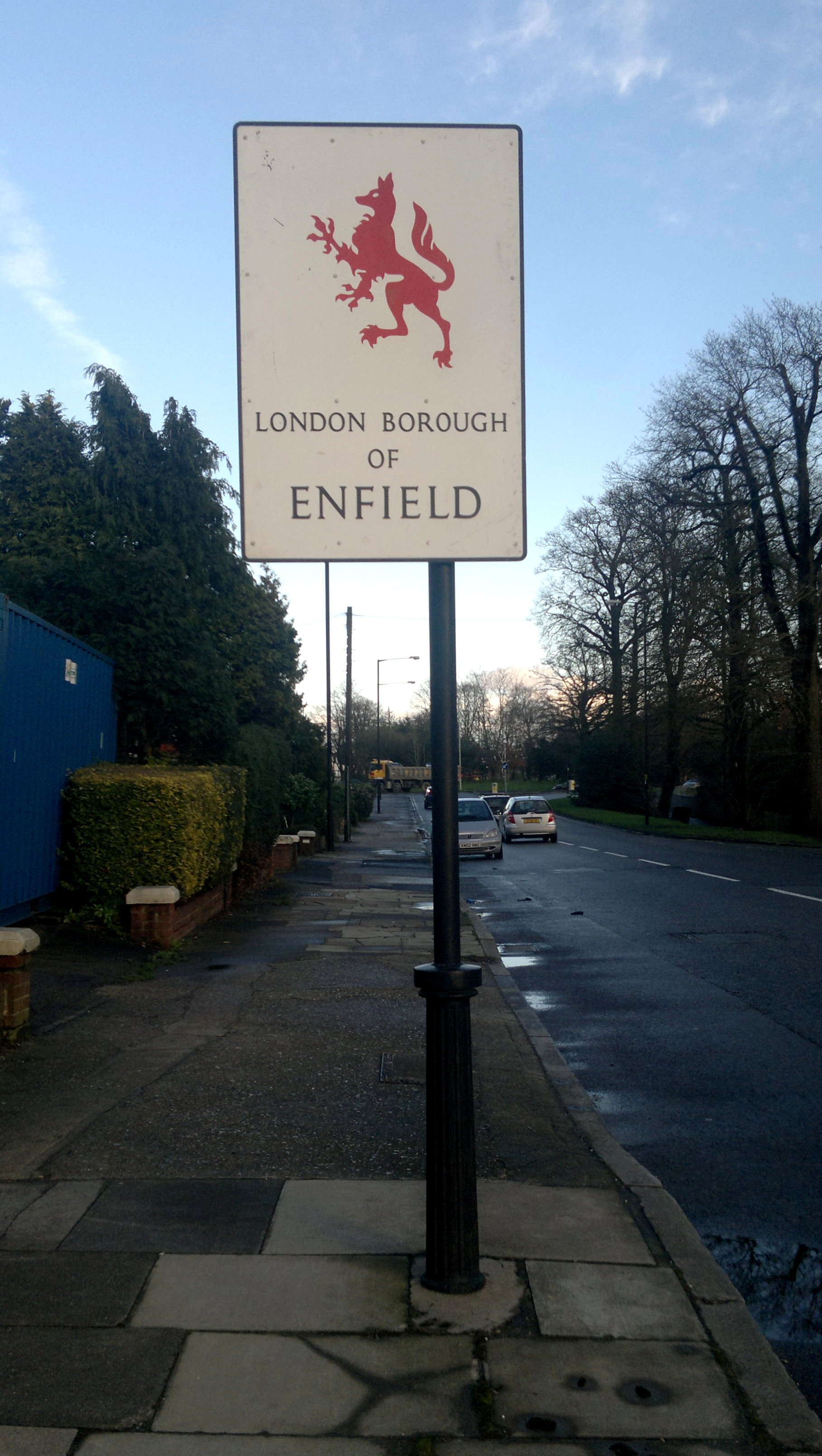 London Borough of Enfield street sign.